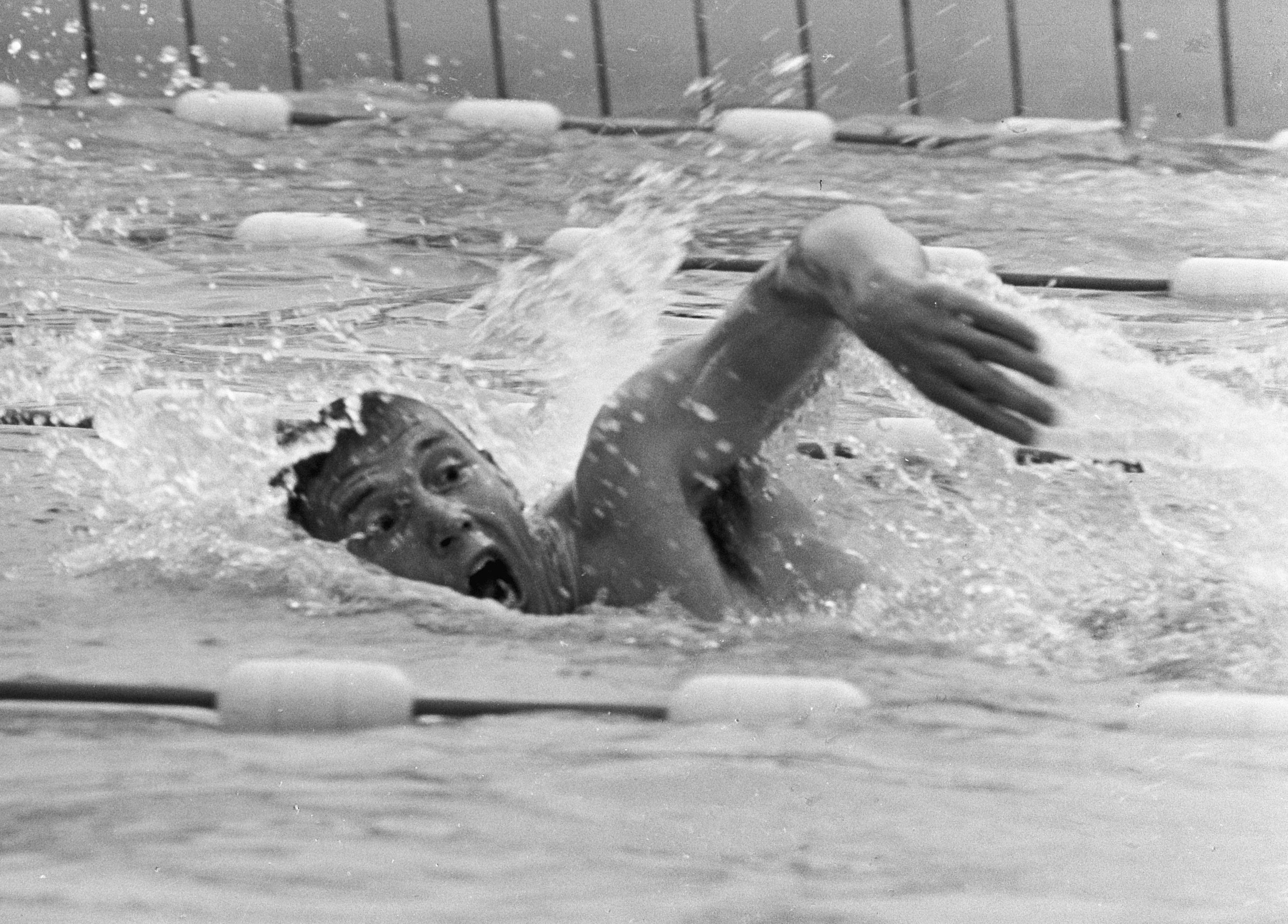 Jan Jiskoot